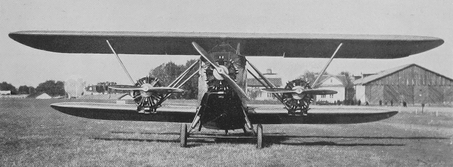 The DAR 4 was a conventional biplane design, with unstaggered wings of unequal span braced with Warren trusses. The fuselage offered fully-enclosed accommodation for the two pilots and four passengers. A curious feature of the design was that the top wing was not attached directly to the top of the fuselage as is common in cabin biplanes, but was mounted above it with cabane struts. Power was provided by three radial engines; one in the nose, and one mounted on each lower wing where the struts met. Performance was disappointing, and in particular, the narrow track of the undercarriage created difficulties. After the single prototype, no further examples were built.